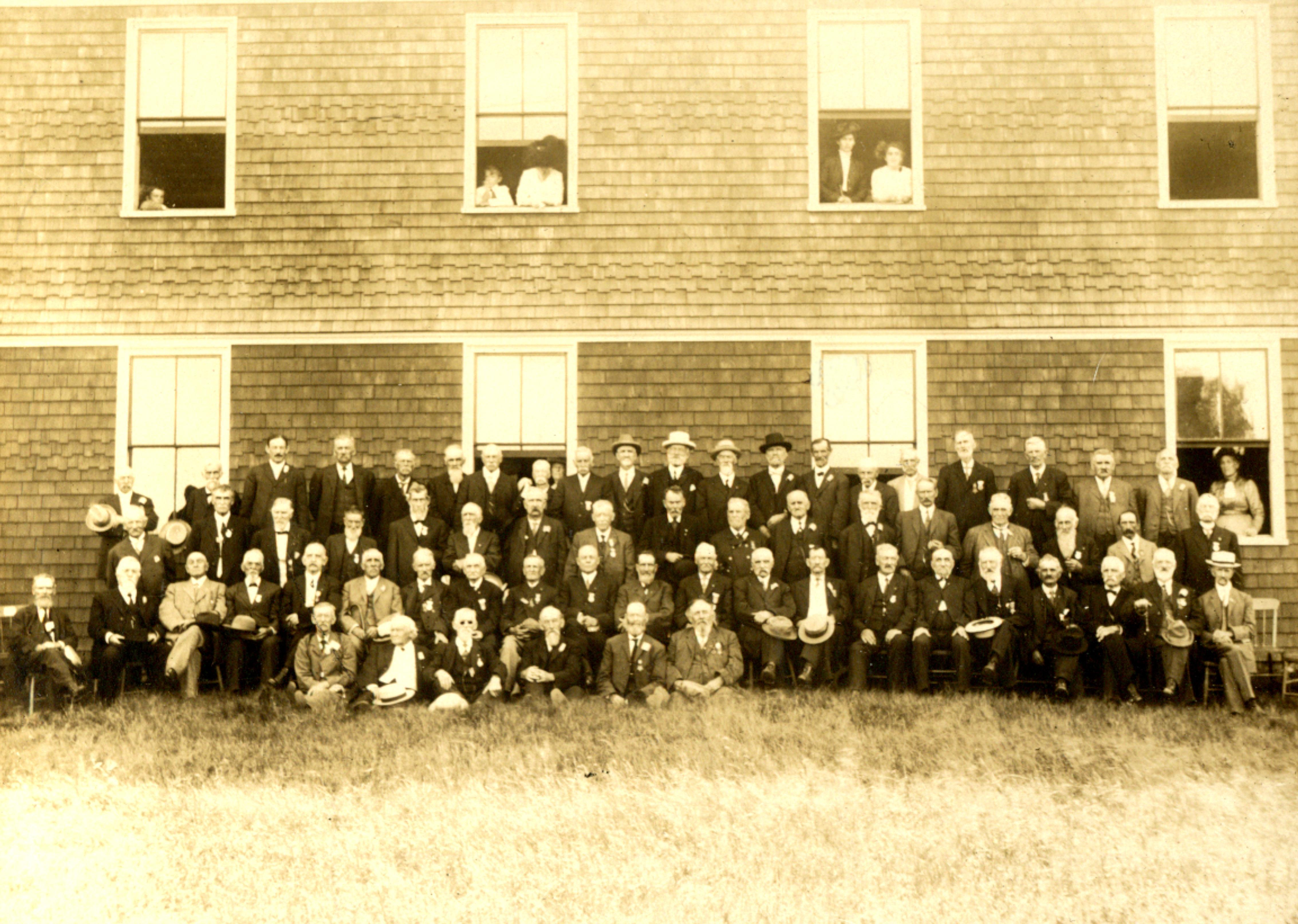 Reunion of the 27th Maine Infantry at the Grand Army of the Republic reunion, Arundel Grange Hall, Kennebunk, York County, Maine, circa 1905. Large cabinet photo. Retouched by MarmadukePercy.